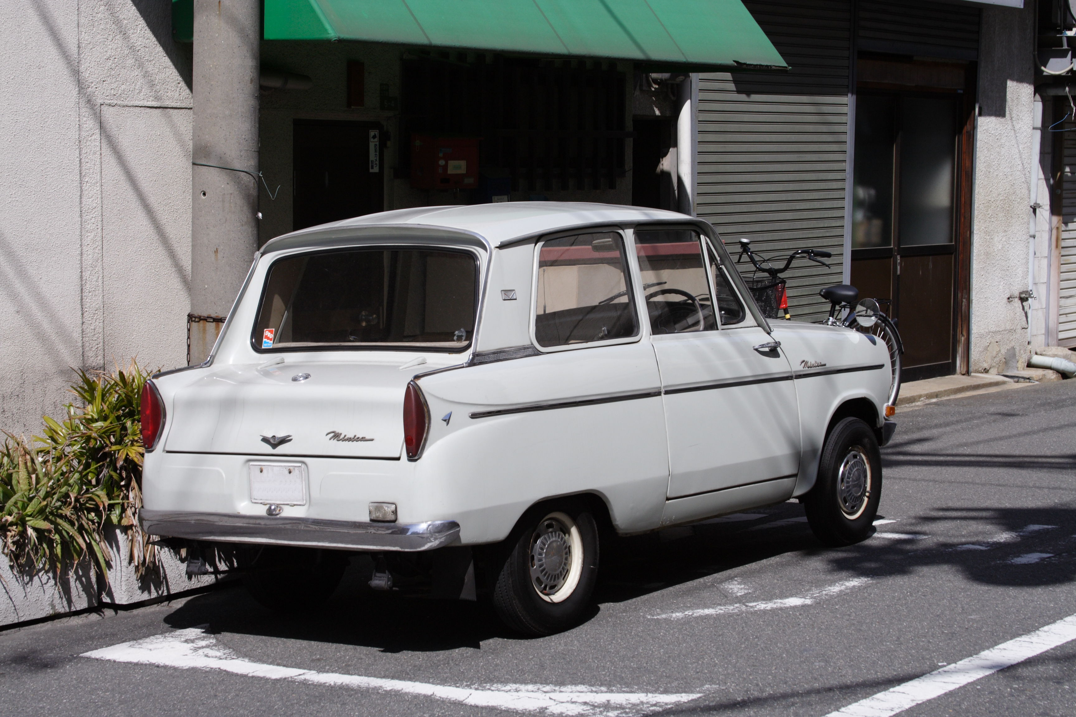 the first Minica by Mitsubishi Motor Company